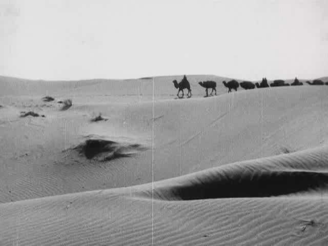 A still from Viktor Turin's documentary film Turksib.